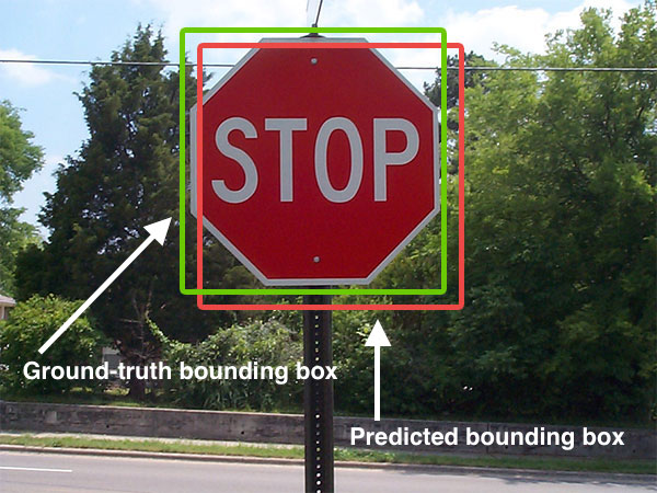 An photo of a stop sign with two bounding boxes: ground-truth and prediction.